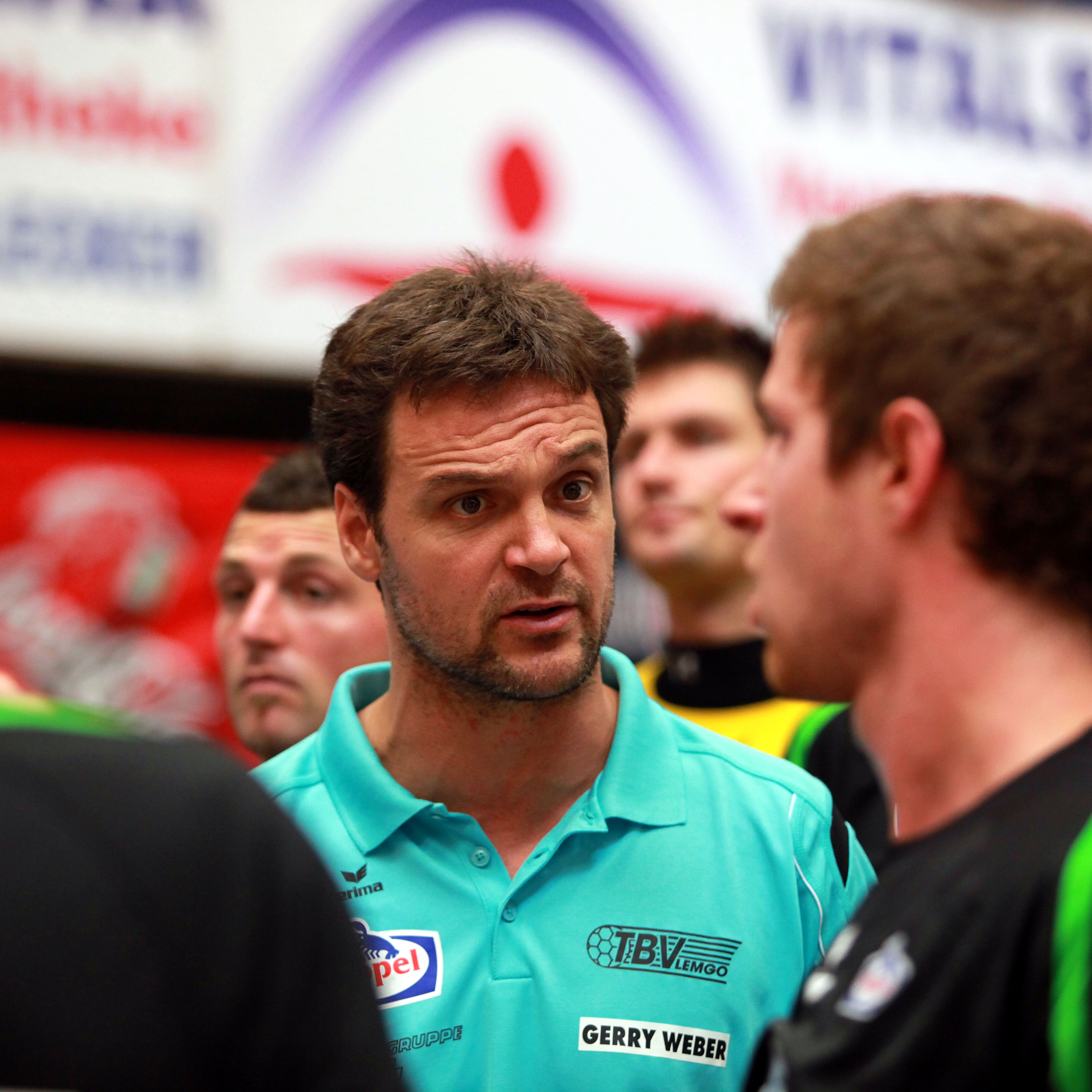 Markus Baur, German handball coach from TBV Lemgo during team time out, during the Schlecker Cup 2009 in Ehingen (Germany)